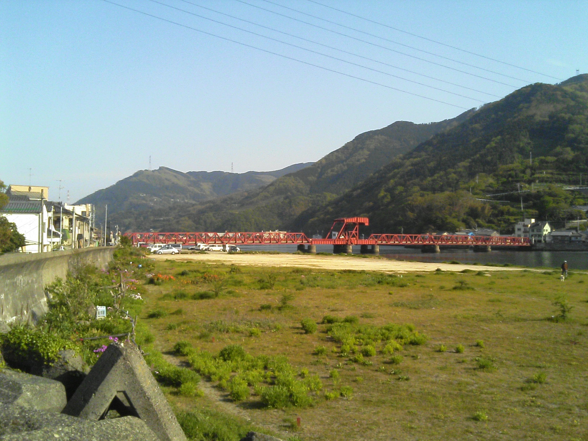 Drawbridge in the Nagahama area of Ōzu, Ehime, Japan